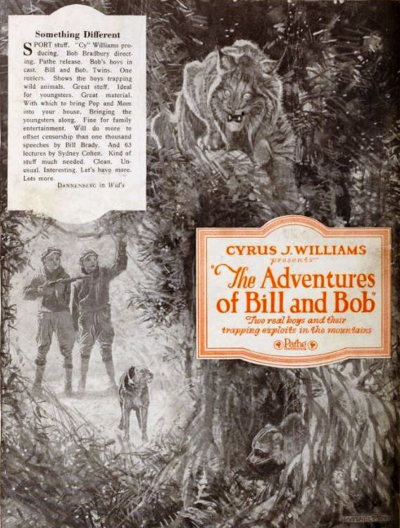 Advertisement for the American adventure film The Adventures of Bob and Bill (1920), on the back cover of the March 26, 1921 Exhibitors Herald.